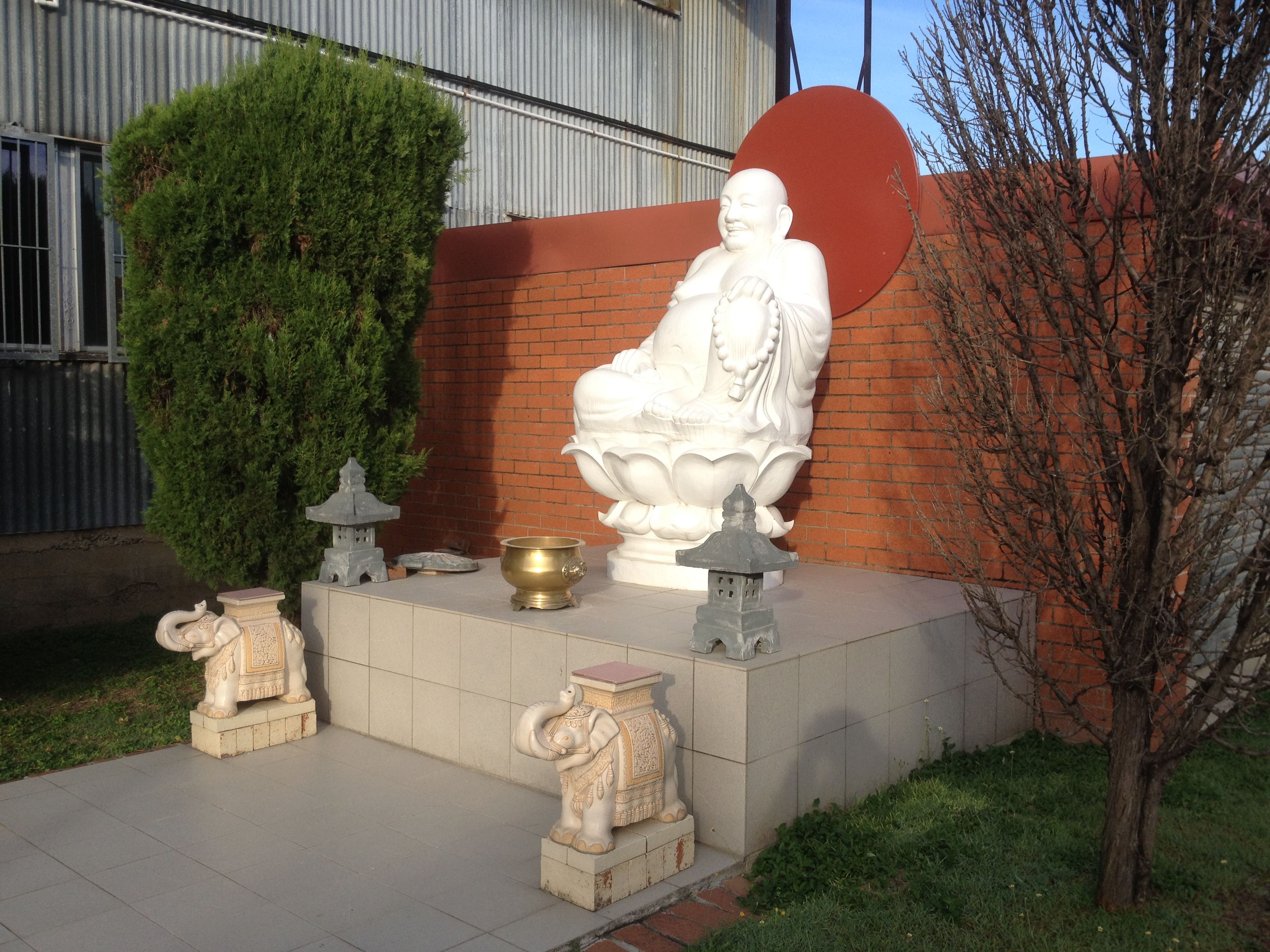 The Temple of the Holy Triad at 32 Higgs Street, Albion, Brisbane, Queensland